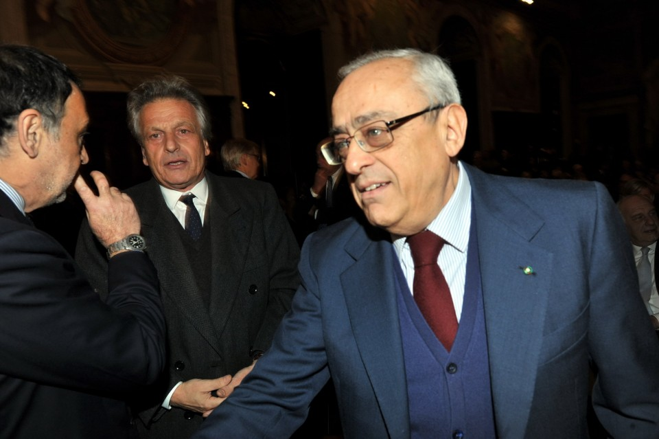 President Francesco Gaetano Caltagirone at the “Restyling Party” for the Il Messaggero newspaper, held in Milan in December 2012.